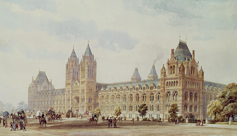 Painting of the Natural History Museum, London by its architect Alfred Waterhouse (died 1905). The east facade (on the far right of this image) was never built.